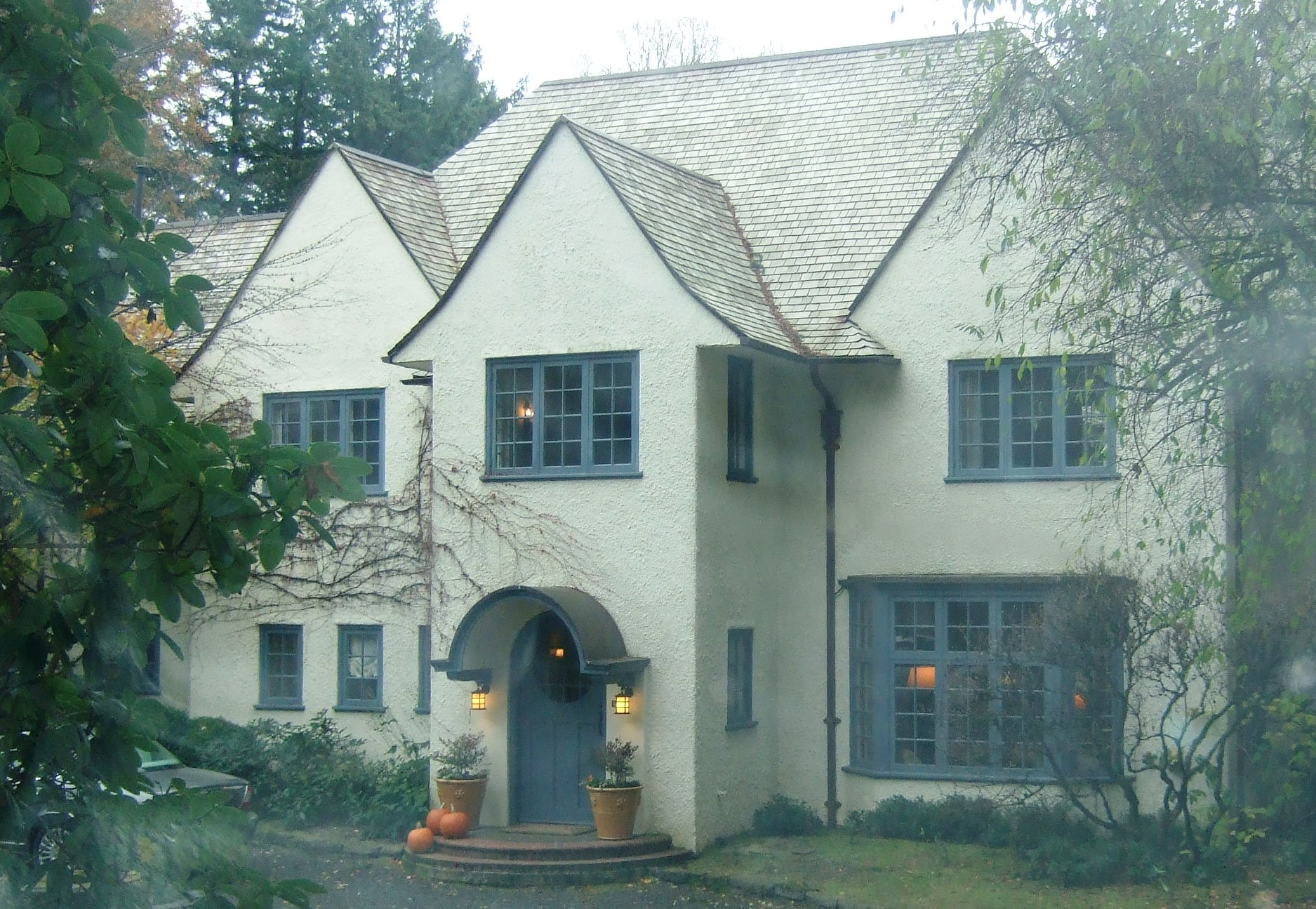 Maurice E. Crumpacker House, built 1923. Added to National Register of Historic Places in 1992. (Building #92001378)